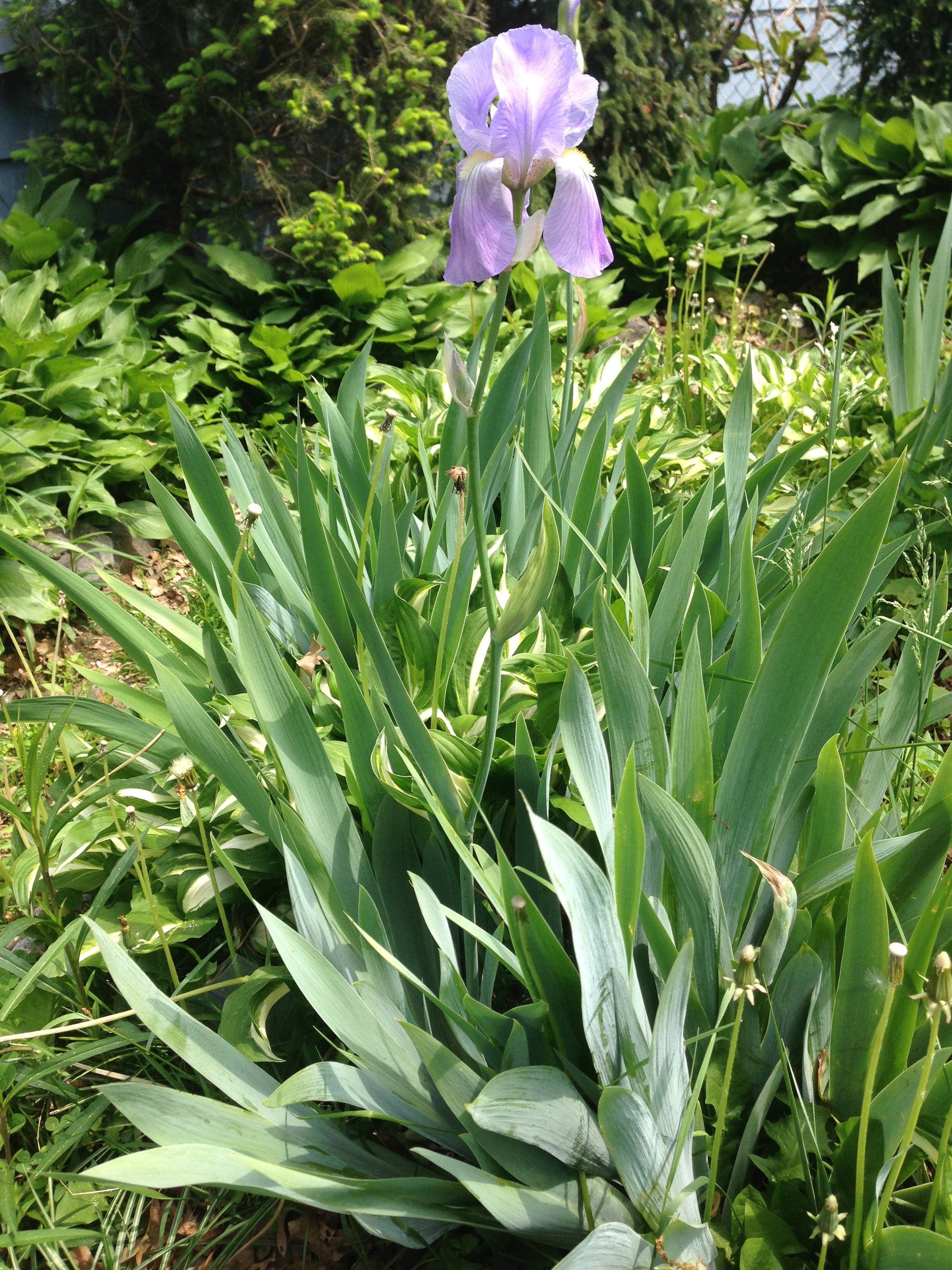 Iris in bloom in Ewing, New Jersey